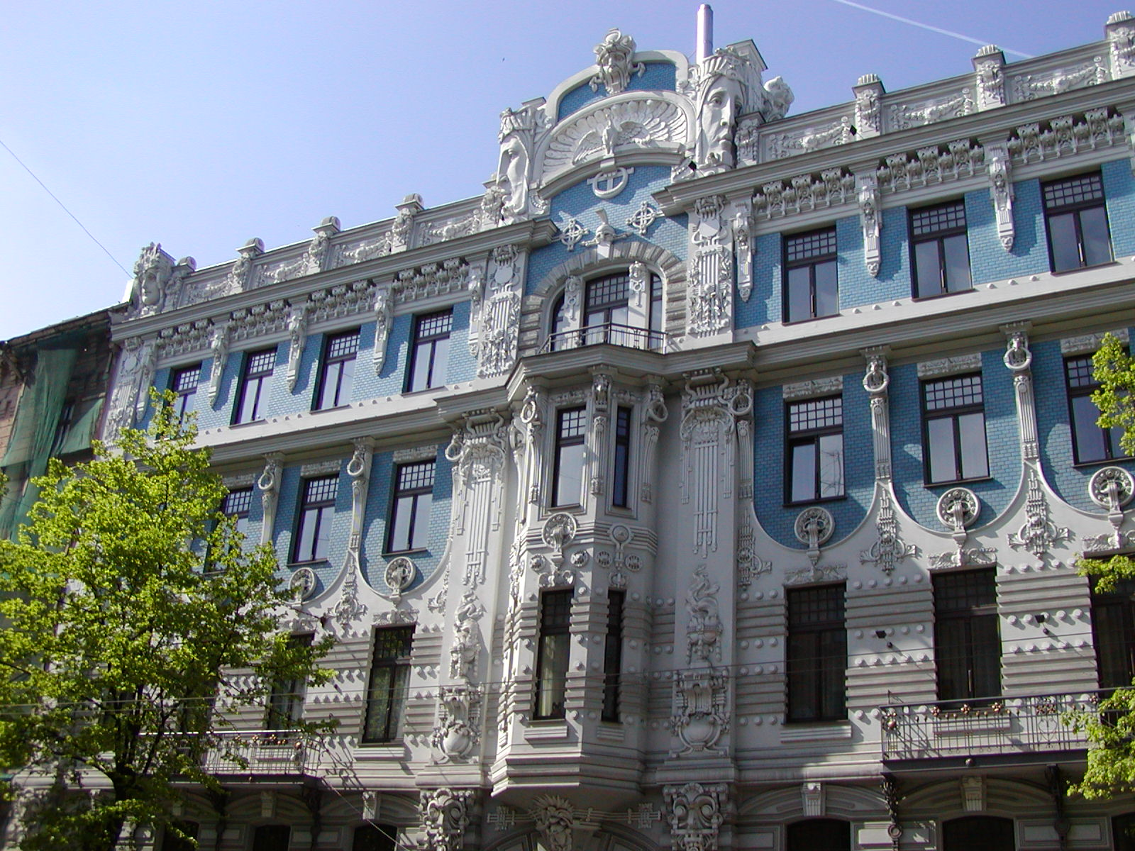 Building at Elizabetes Iela 10b, architect Mikhail Eisenstein